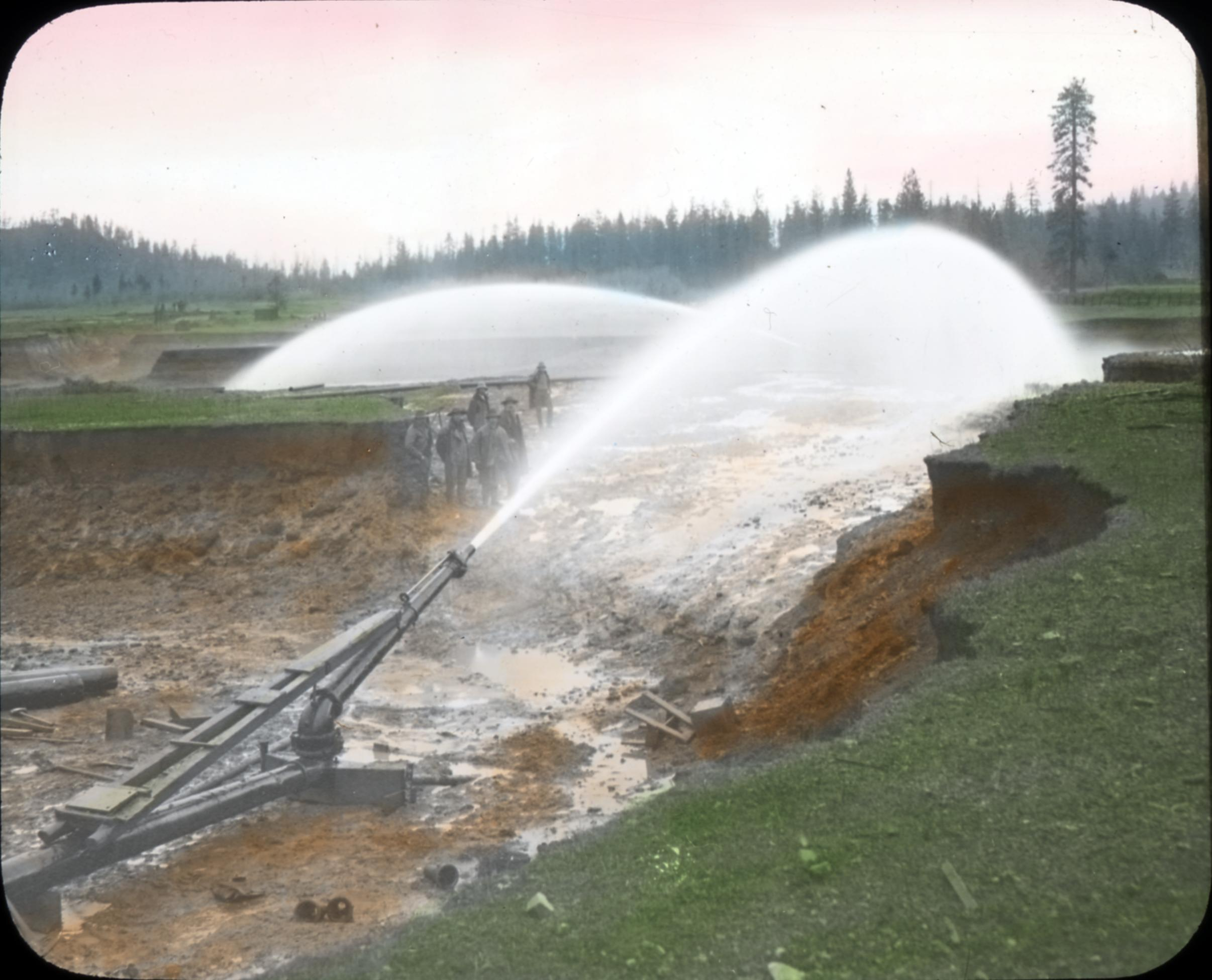 Image Description: “Turning to another industry, this scene is one of placer mining in Josephine County, Oregon. The state has a variety of mineral deposits, but, owing to inaccessibility, many of these prospects have not yet been developed. Placer mining for gold has been developed to some extent in three or four locations in the state.” Original Collection: Visual Instruction Department Lantern Slides Item Number: P217:set 007 029 You can find this image by searching for the item number by clicking here. Want more? You can find more digital resources online. We're happy for you to share this digital image within the spirit of The Commons; however, certain restrictions on high quality reproductions of the original physical version may apply. To read more about what “no known restrictions” means, please visit the Special Collections & Archives website, or contact staff at the OSU Special Collections & Archives Research Center for details.